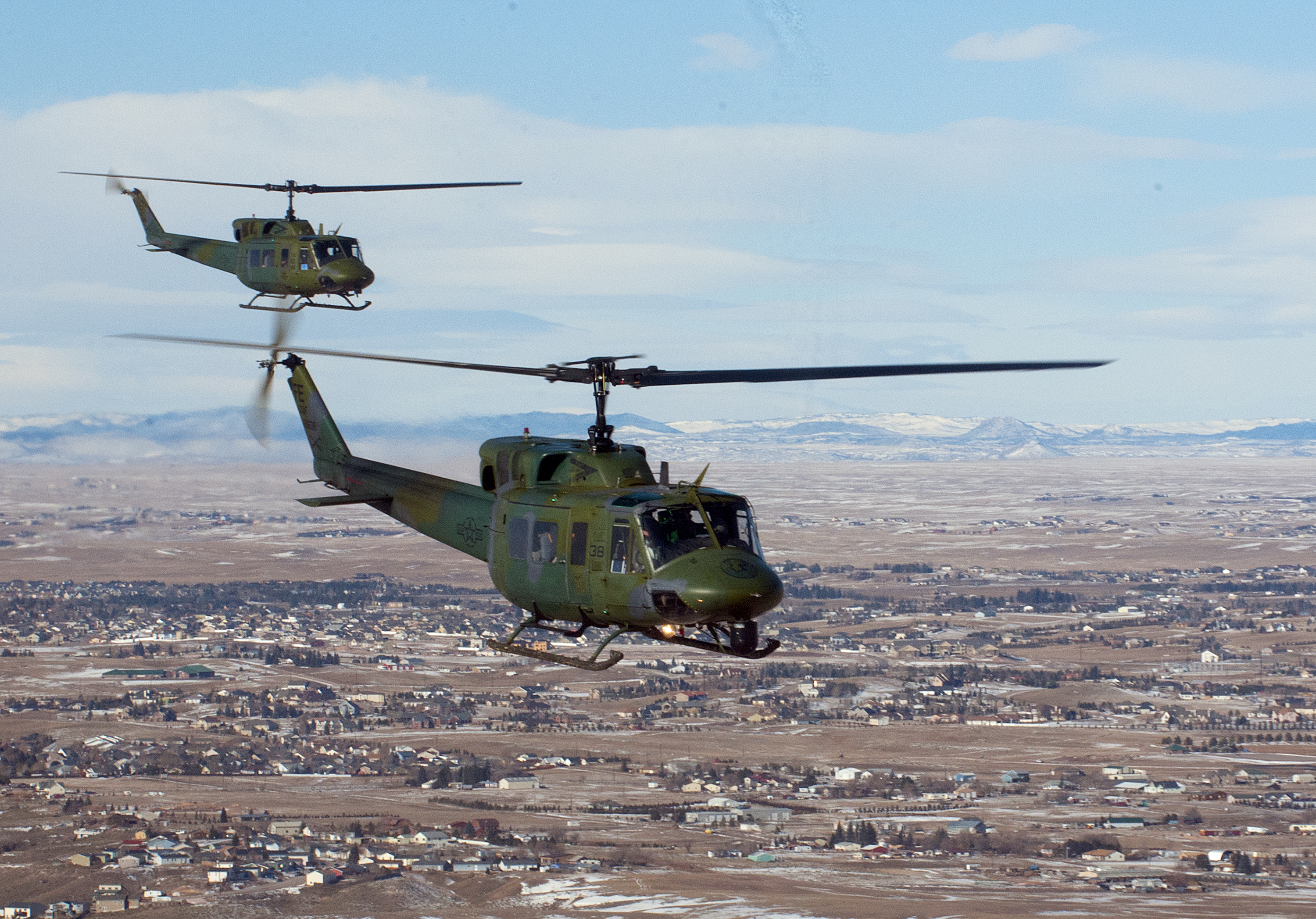 Two UH-1N helicopters from the 37th Helicopter fly over Cheyenne, Wyo.